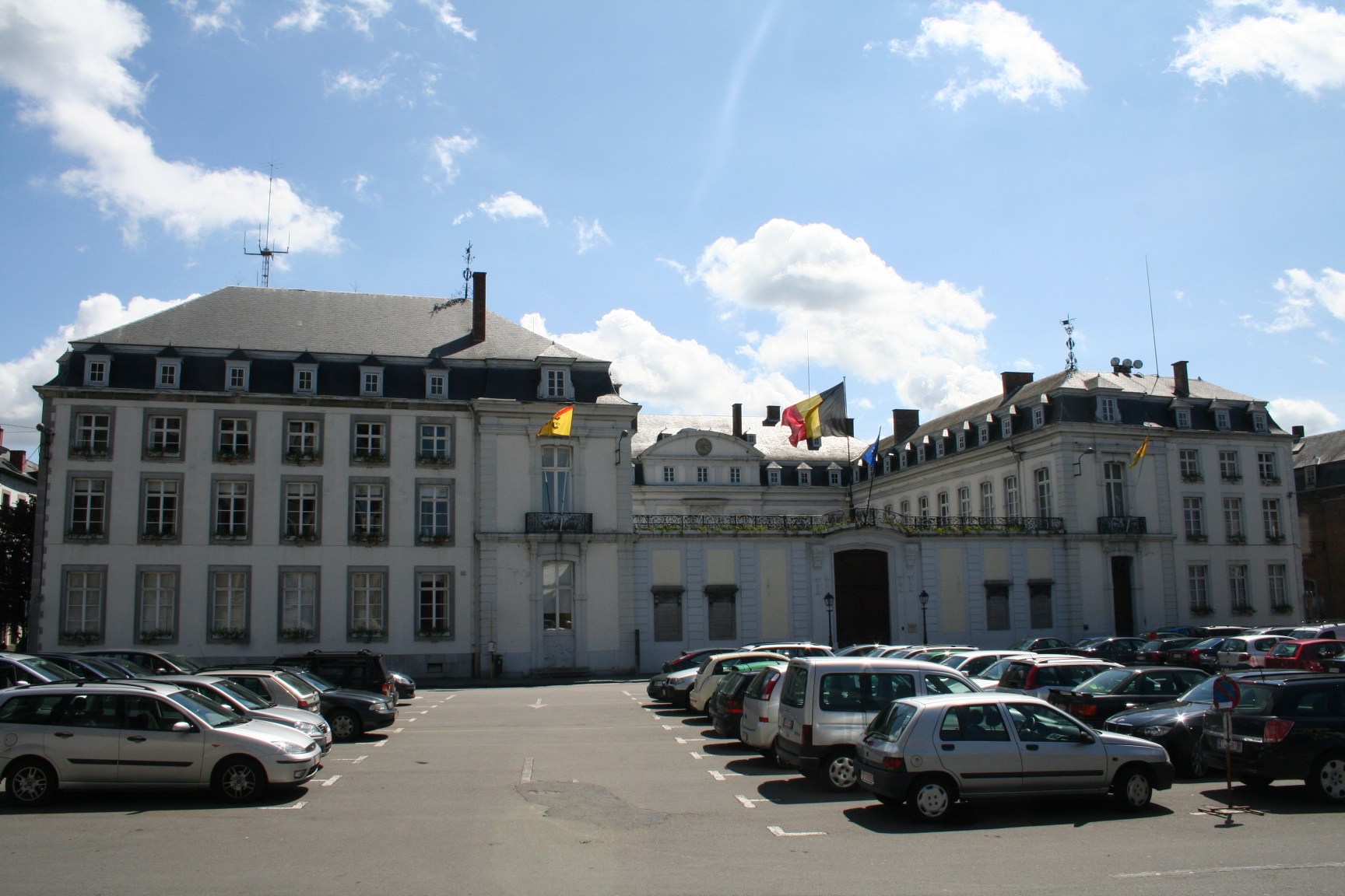 Namur (Belgium), the ancient bishop's palace now the province governor's palace (1728-1732).